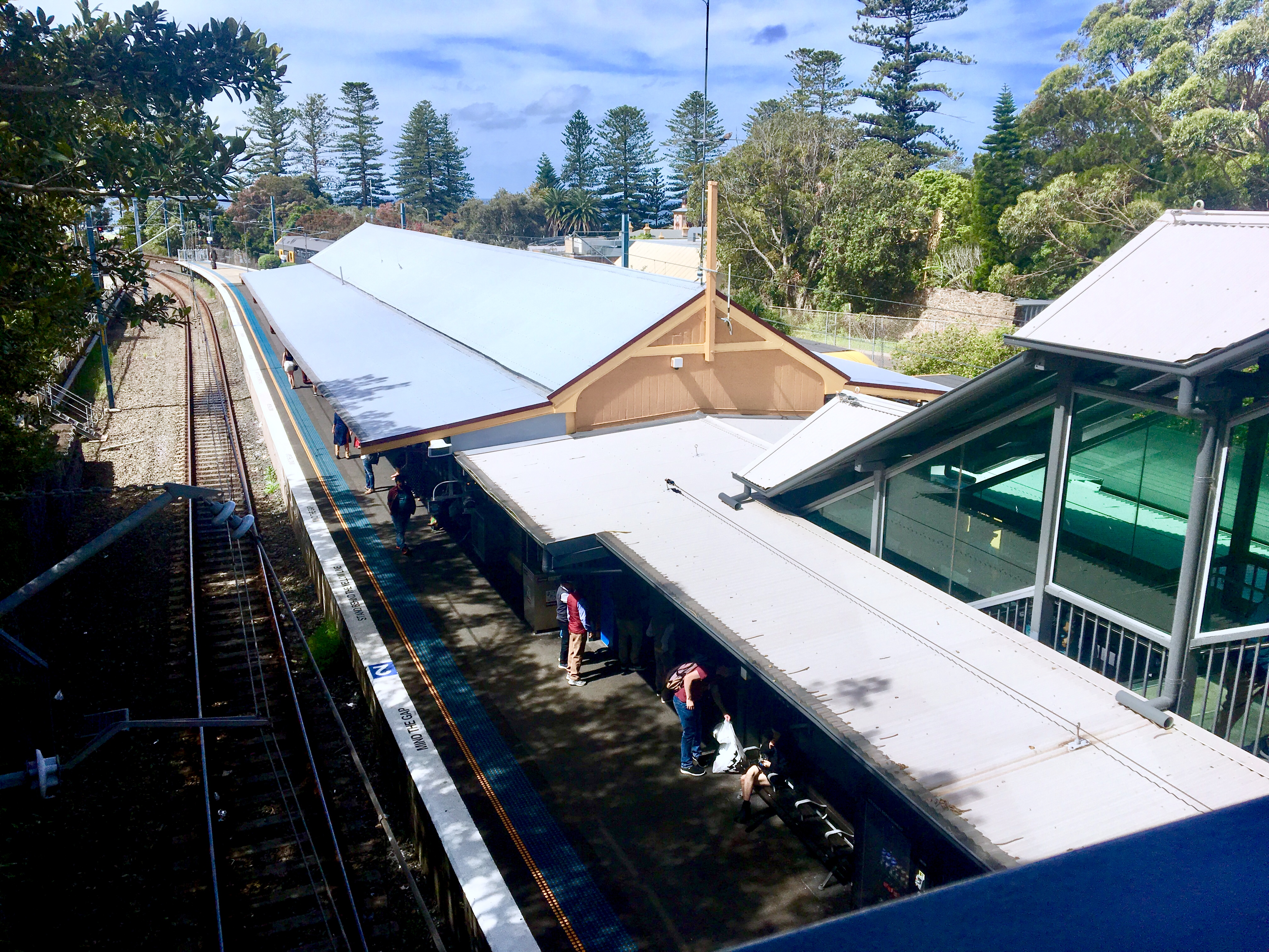 The track and platform at Kiama railway station.